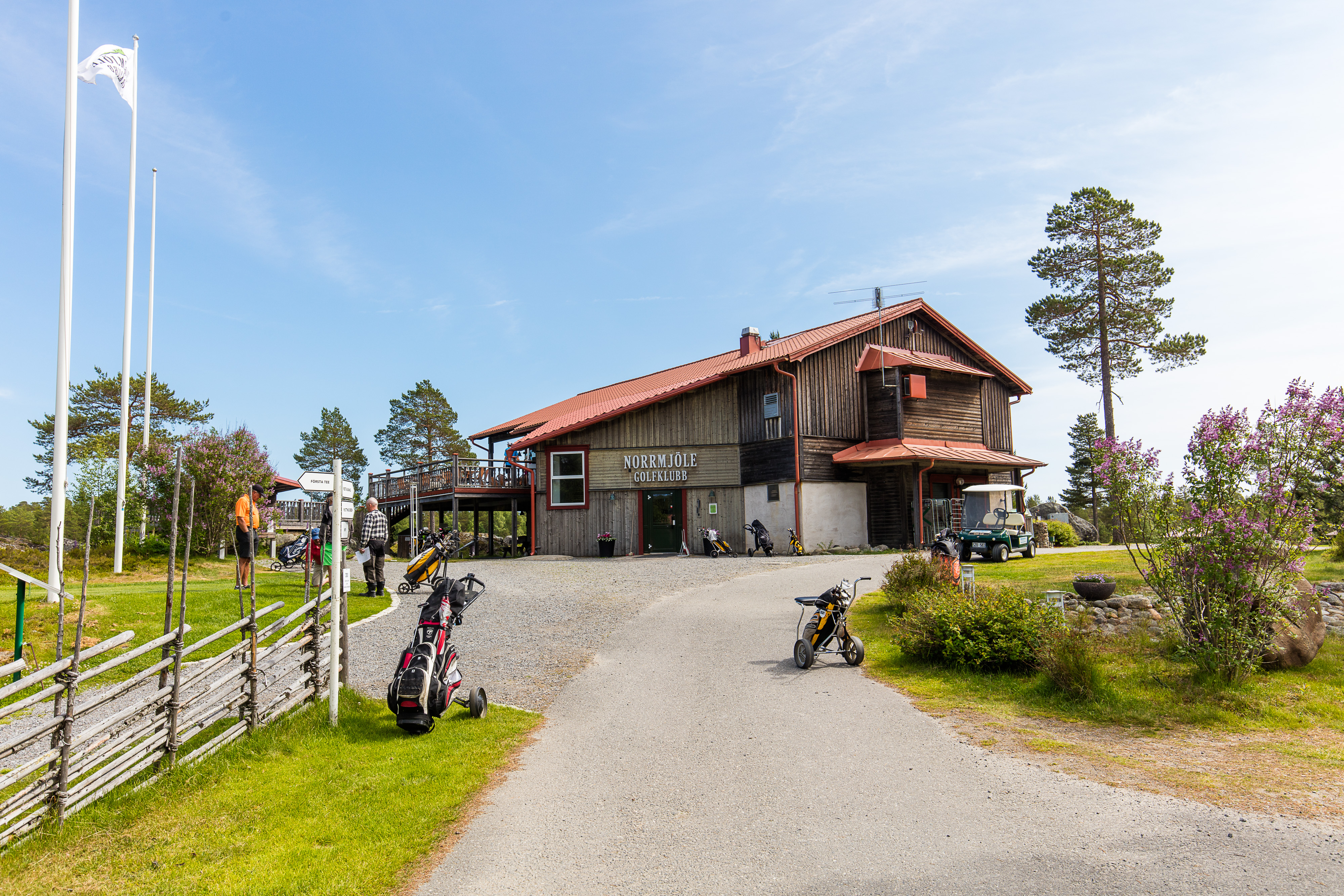 Norrmjöle golf, by the seaside some 29 kilometres south from Umeå.